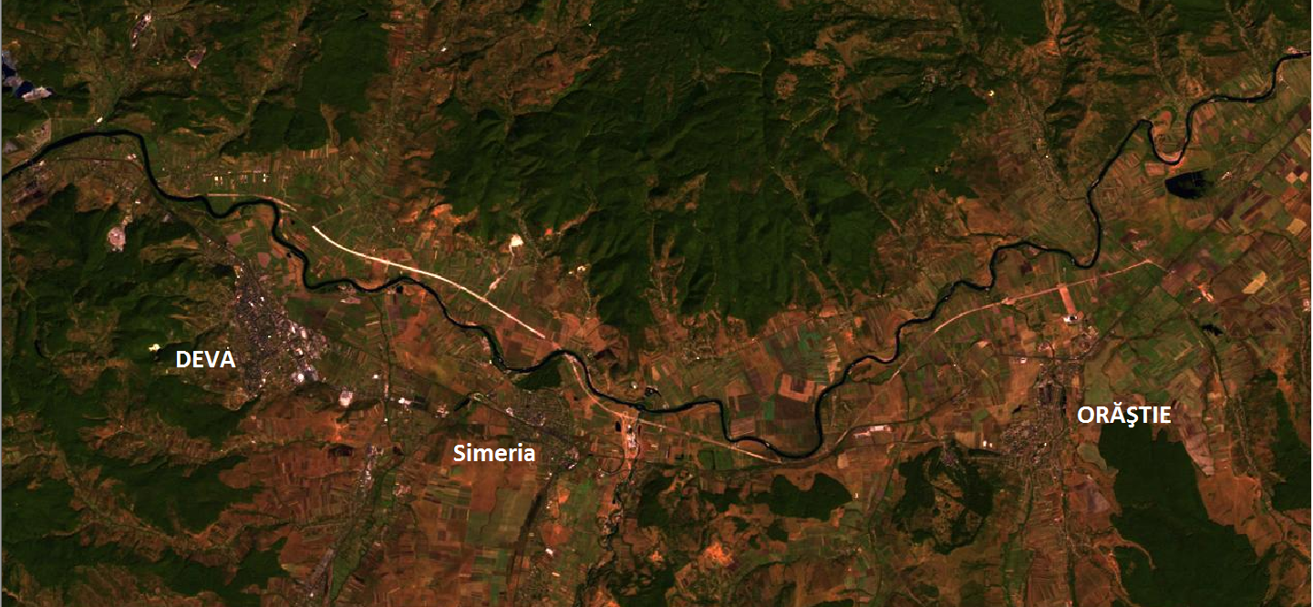 Orastie-Deva section of the Romanian A1 motorway under construction as of September 21, 2011 (Landsat TM satellite image).